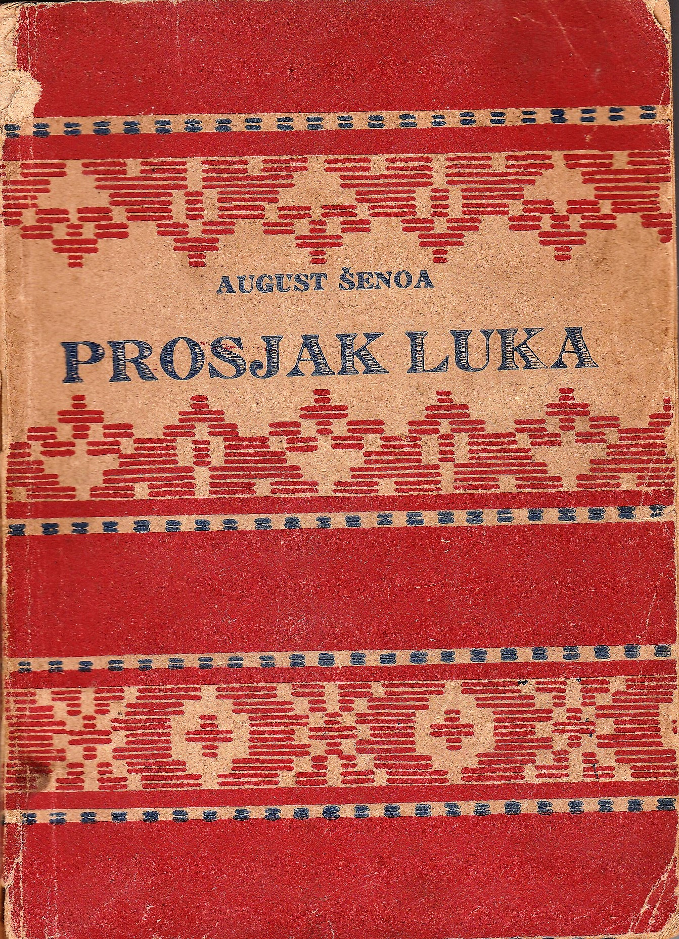 Cover of the book "Prosjak Luka" (1879) by Croatian writer August Šenoa (1838-1881), 1950 issue (Publisher: Seljačka sloga, Zagreb)